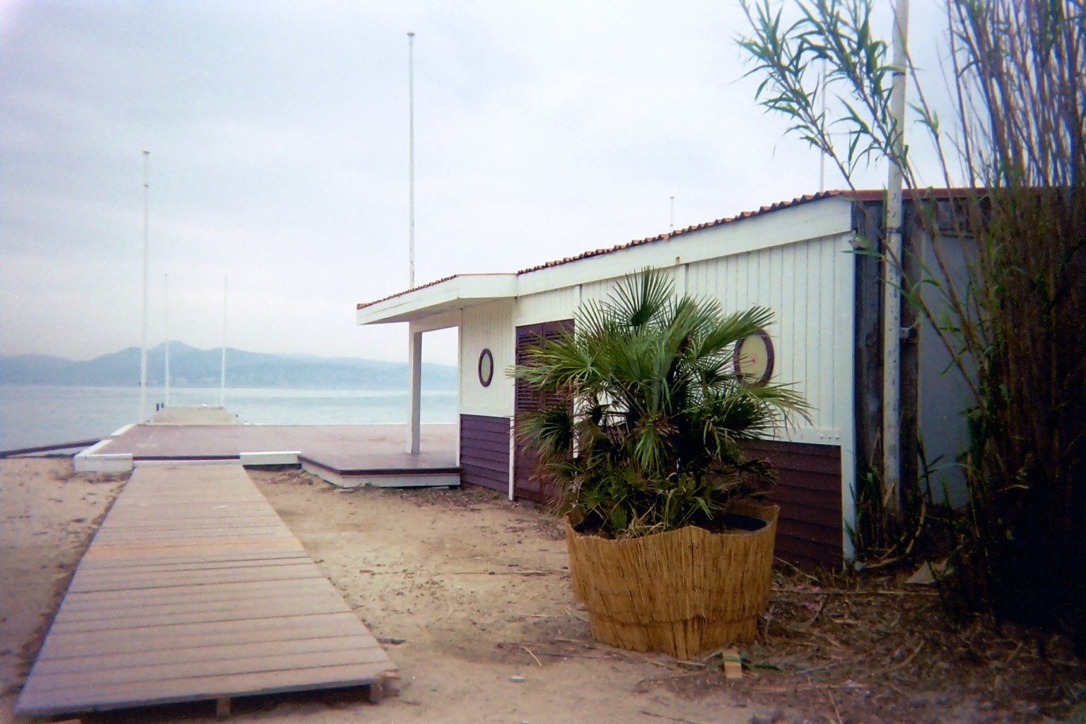 Set of soap opera "Sous le soleil", 2002.